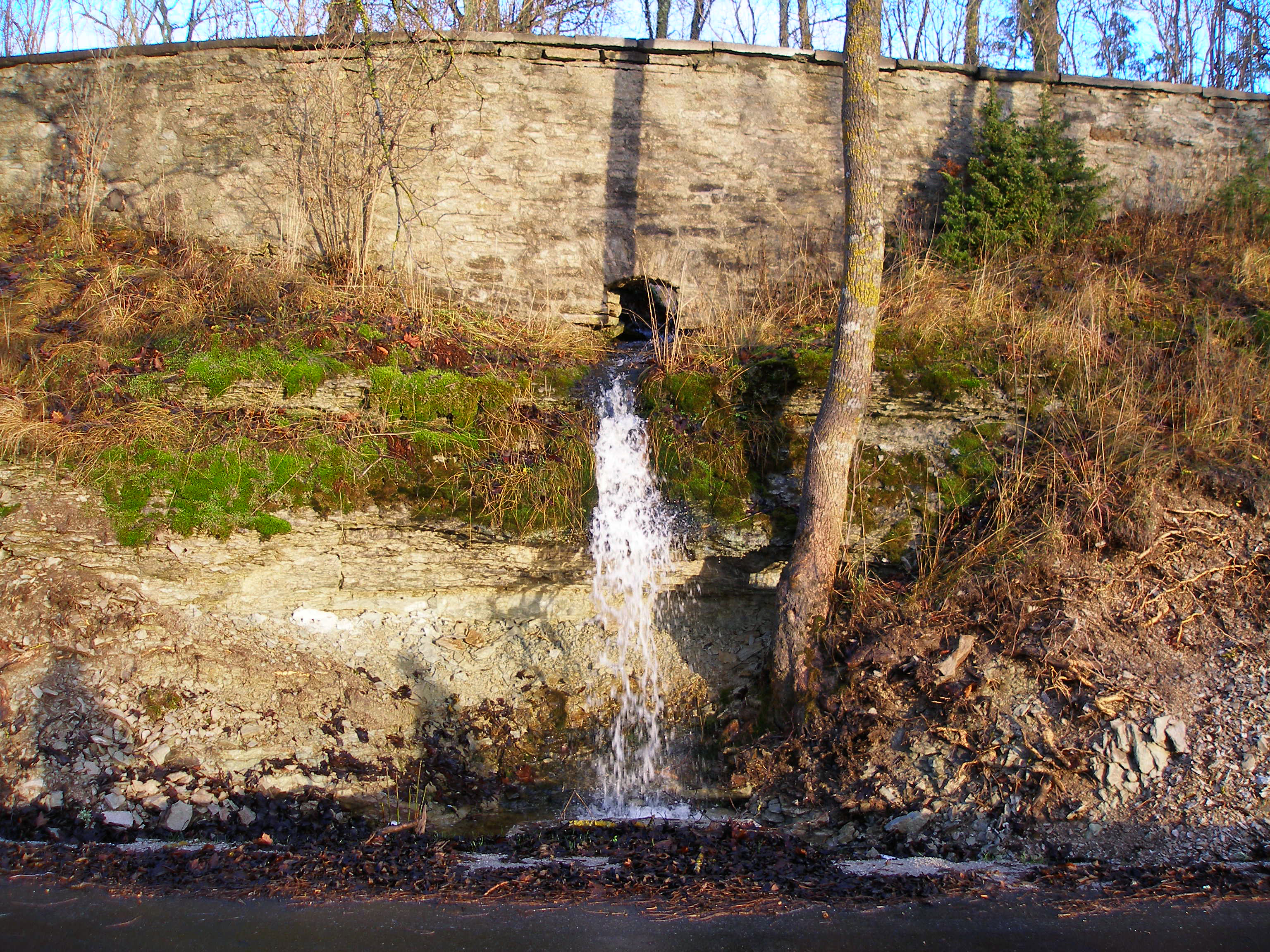 Madise waterfall, Harju-Madise